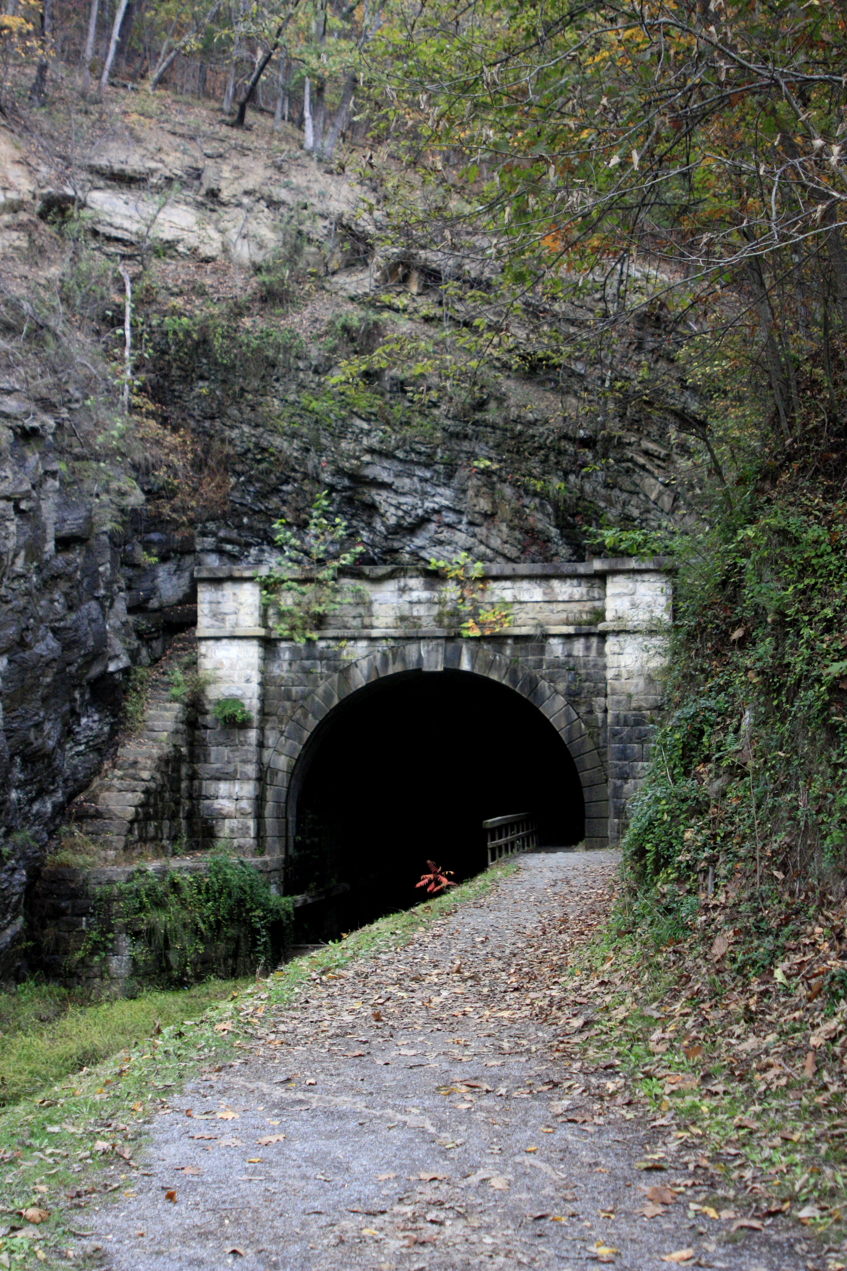 Paw Paw Tunnel Hill Trail Ribbon Cutting